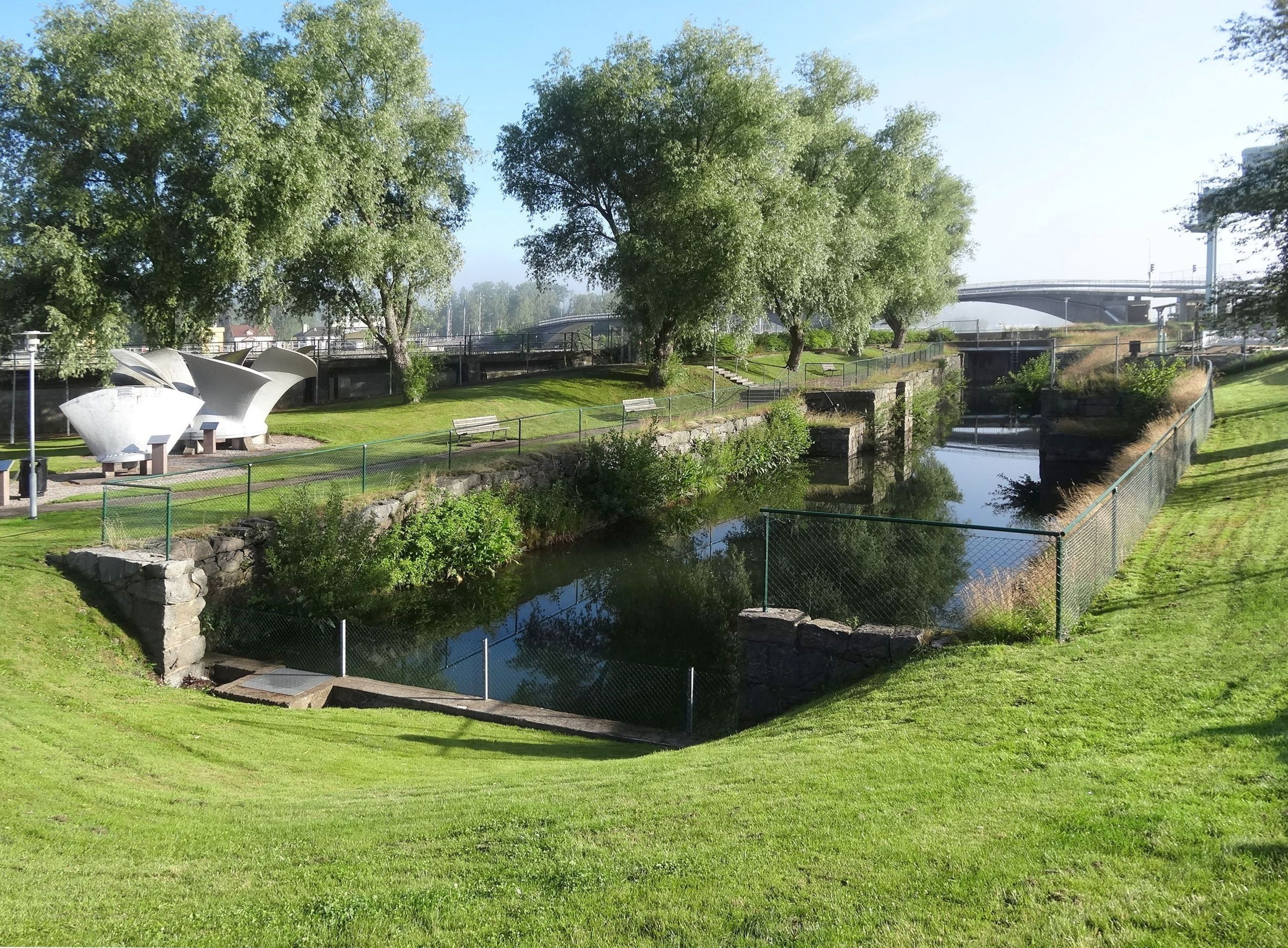 One of the first locks in Sweden, in operation 1607, made it possible to sail vessels in the Göta älv-river up to the waterfalls at Trollhättan.